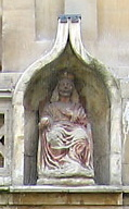 Detail from Image:Roman Baths, Bath - Sacred Spring.jpg, cropped by uploader